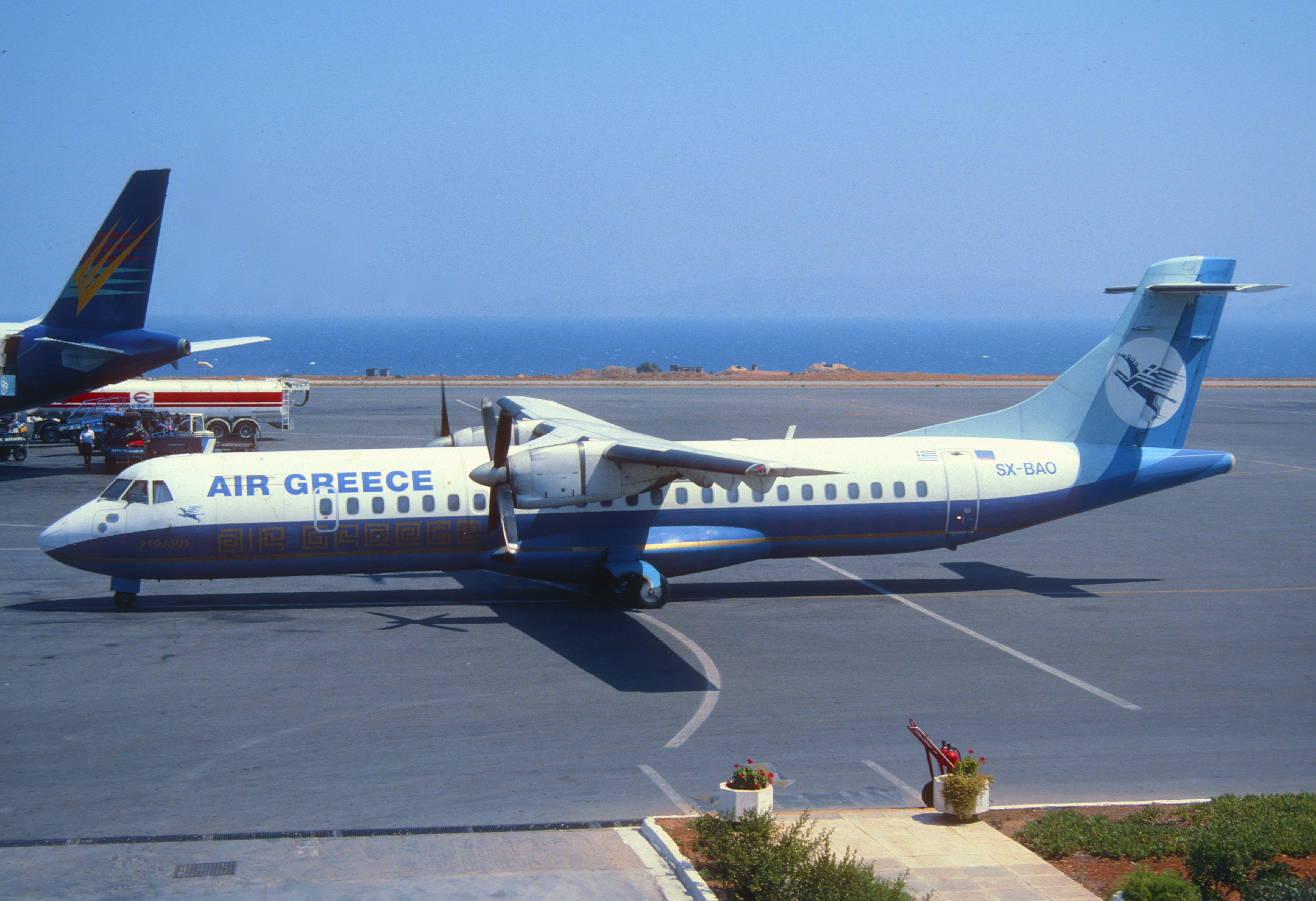 33ao - Air Greece ATR 72-202; SX-BAO@HER;23.07.1998